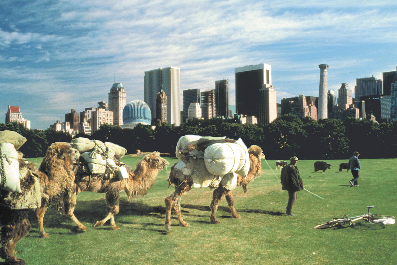 Digital collage depicting Islamified New York City by AES+F